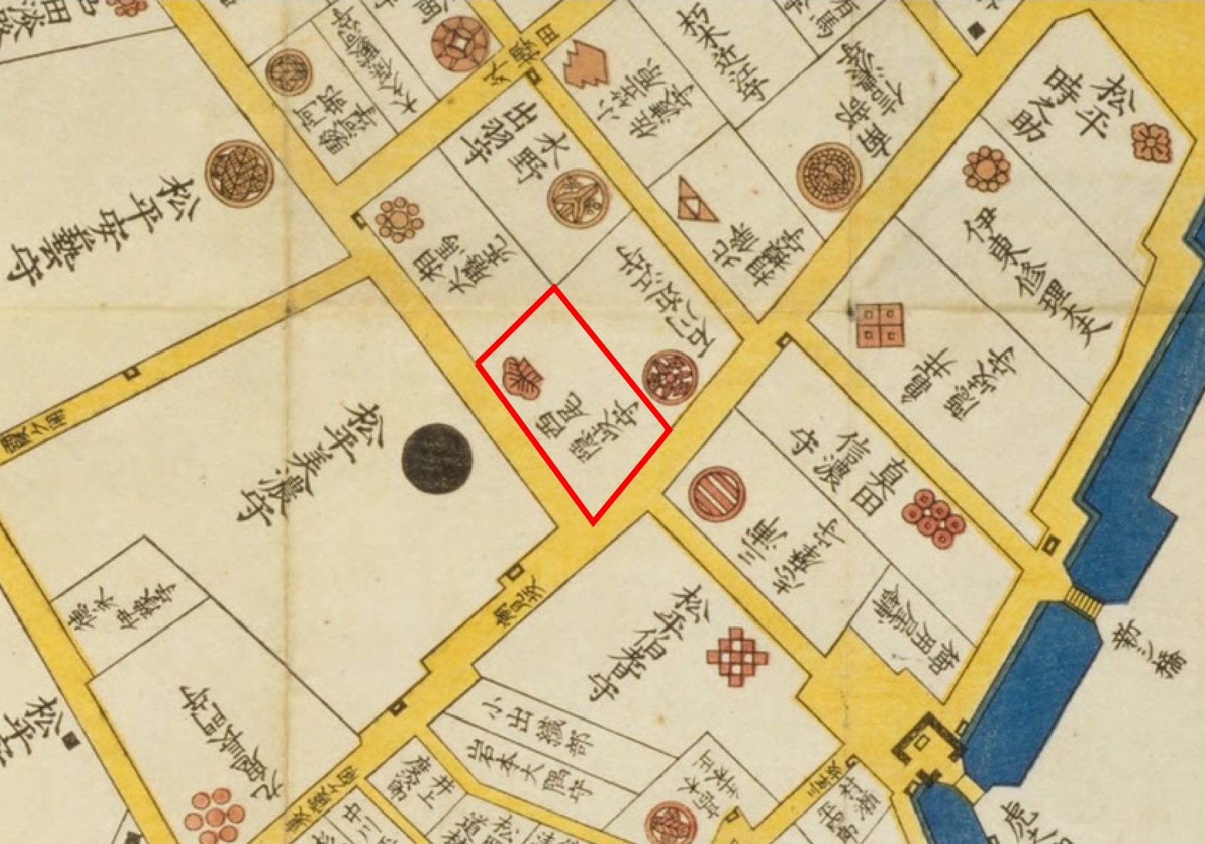 Residence of Nishio clan at Edo